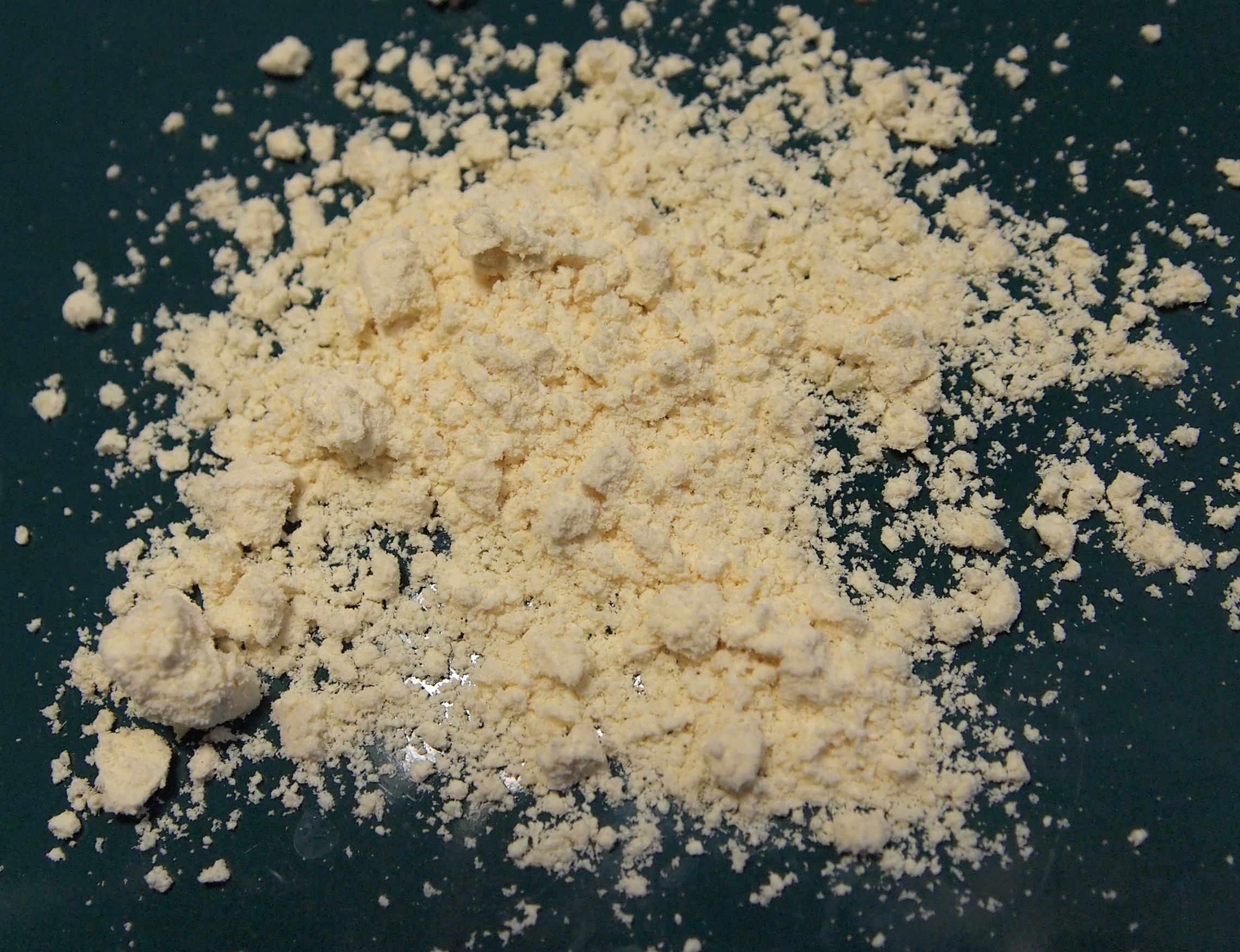 Soy powder.